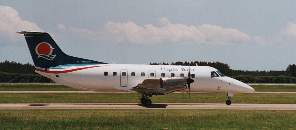 Flight West Embraer EMB-120 Brasilia VH-XFV at Brisbane Airport, Australia. Photo taken by David Knudsen, December 1999. Uploaded with permission by User:Adz